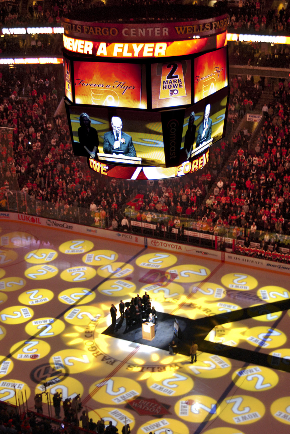 Ceremony at the Wells Fargo Center in Philadelphia for the retirement on jersey #2 of former Philadelphia Flyer defenseman Mark Howe (1982-92) on March 6, 2012, before a game between the Flyers and Detroit Red Wings.